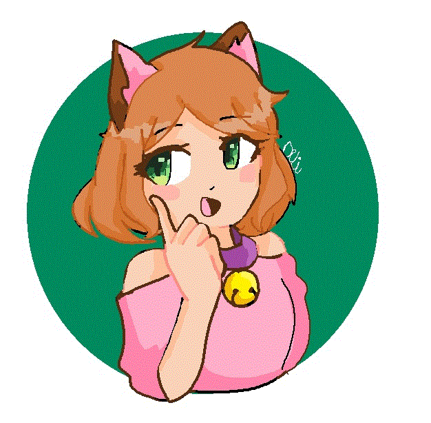 A kemonimimi (also known as a nekomimi) with cat ears